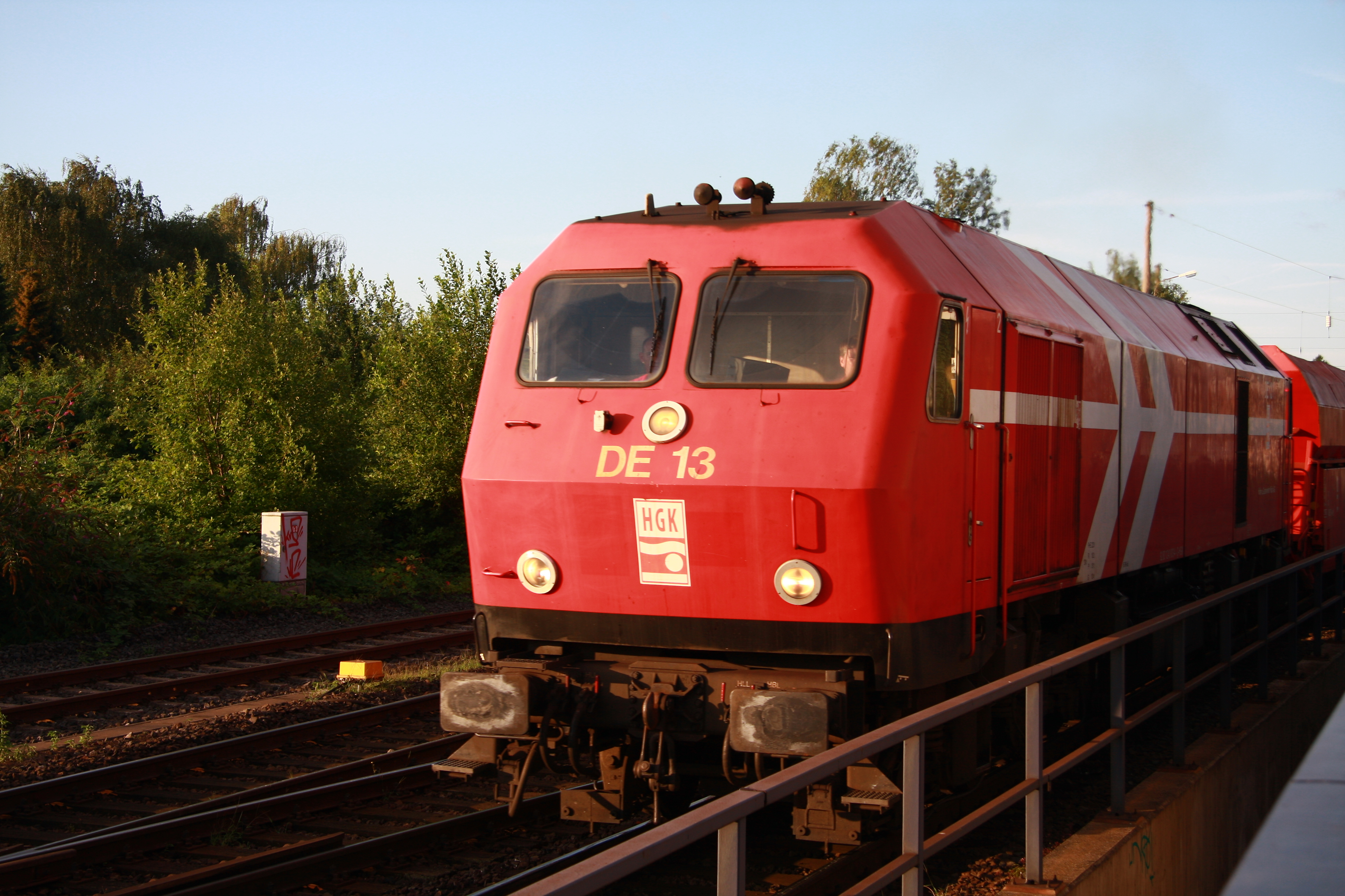 Loko of Deutsche Bahn type class 240, now owned by the Häfen und Güterverkehr Köln, picture taken in Brühl (Rhineland)